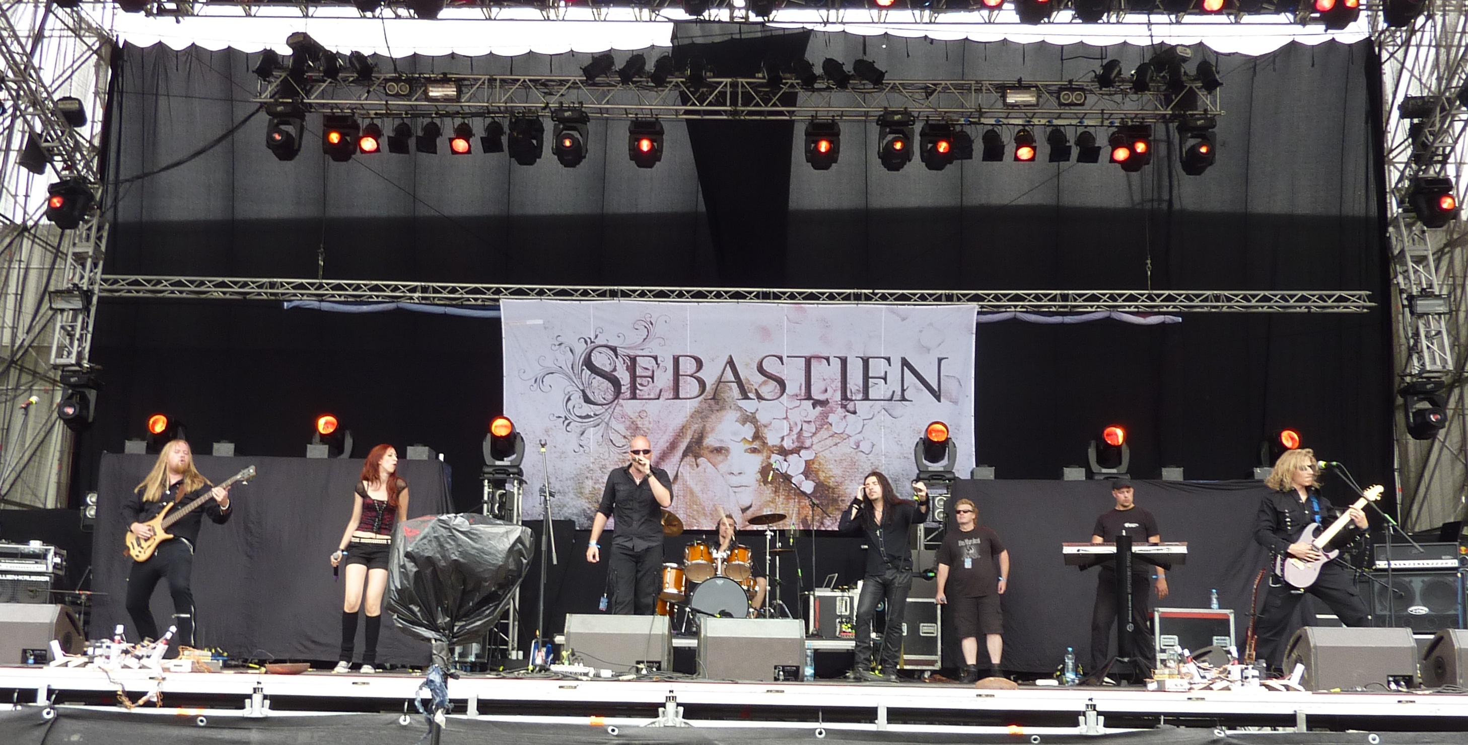 Sebastien + guests (Katie Joanne, Apollo Papathanasio, Roland Grapow) at Masters of Rock 2012 (Vizovice)